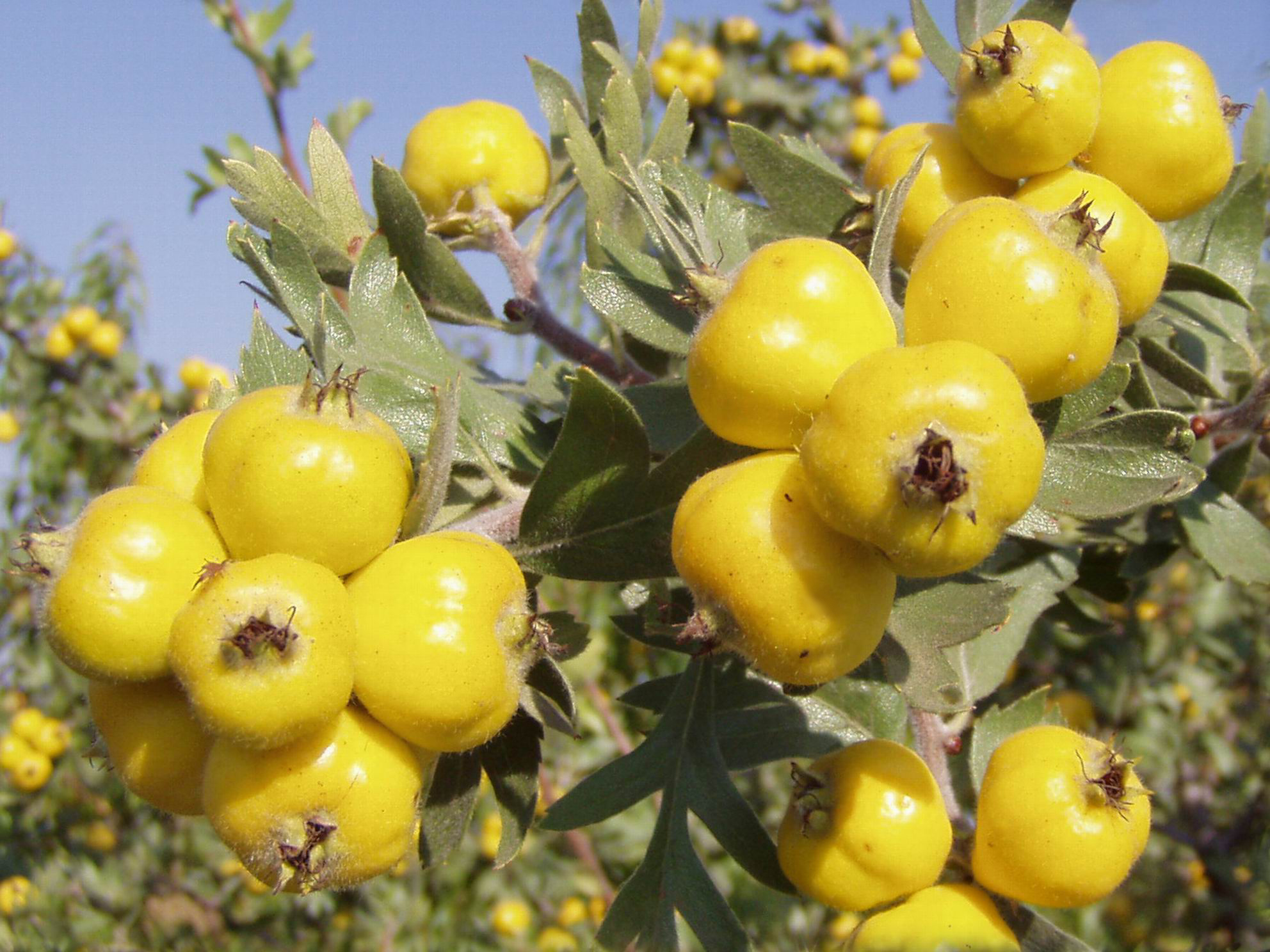 Crataegus pojarkovae Kossych (Rosaceae). This is hawthorn species with biggest fruits in Ukraine. The photo made in the orchards of Artemivsk Experimental Station of Nurseries Cultivation, Donetsk Region